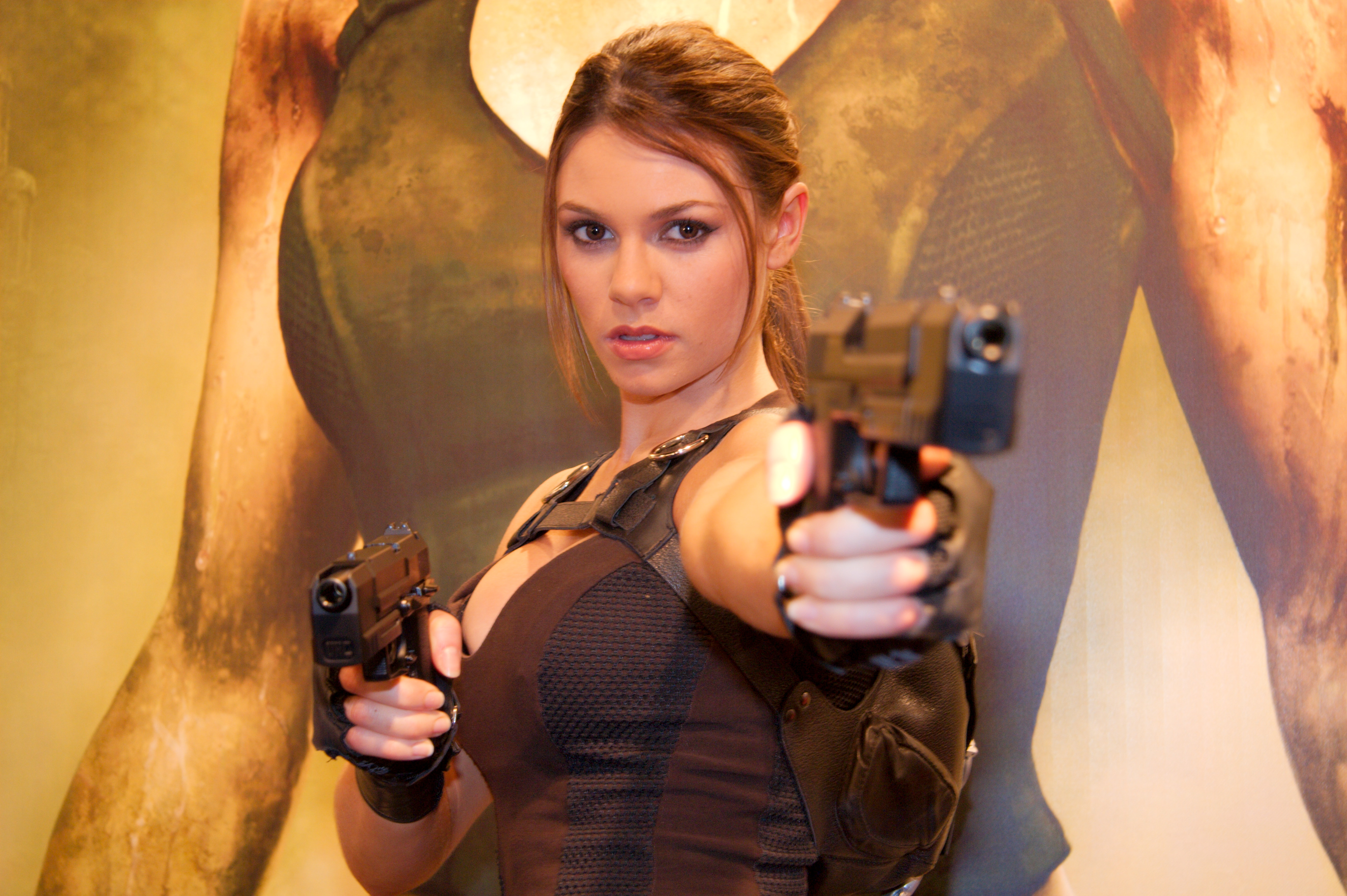 Alison Carroll, the official Lara Croft model for Tomb Raider: Underworld at Festival du jeu vidéo 2008 (Paris, France).